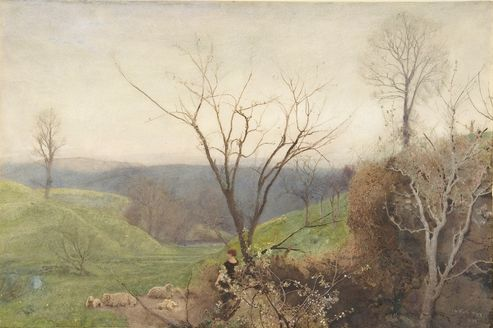 Spring